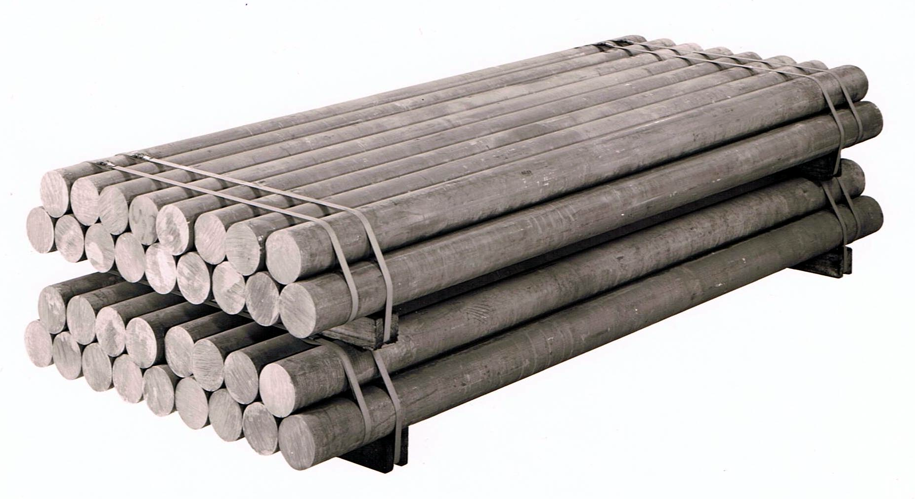 AlSiMg alloy ingots produced using continuous casting